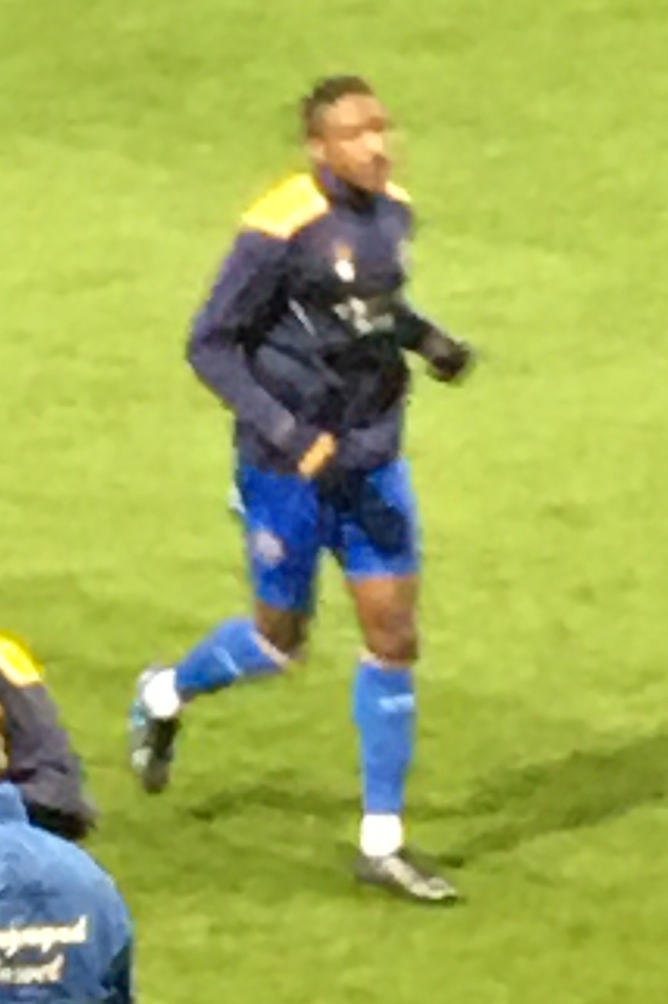 Omar Beckles warming up for Shrewsbury Town at Bradford City, FA Cup Round 1 replay, 2019-20